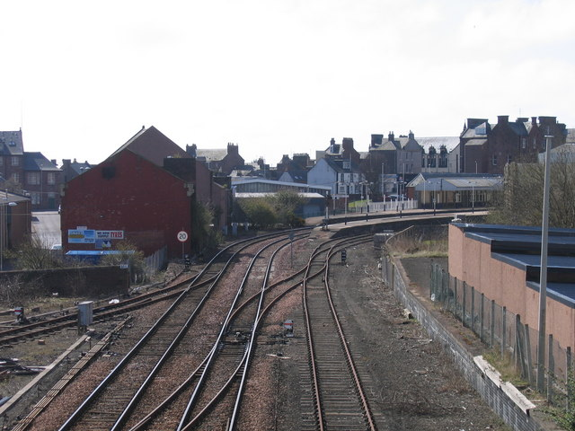 Round the bend to Arbroath Station By the end of 1838 Arbroath was served by two railways. The Arbroath & Forfar Railway (A&FR) was running a horse-drawn service from the latter town over the line above which the photographer is standing; its terminus was initially at the harbour, reached by continuing straight ahead at the end of the present station platforms. Locomotive haulage on this 5ft 6in-gauge line commenced early the following year. The Dundee & Arbroath Railway ran into the town from the west and terminated at a separate Ladyloan station, just short of the harbour and beyond the buildings on the extreme right of the picture. In 1847 the gauge of the A&FR was standardised to 4ft 8½in and the following year a connecting line with an intermediate temporary station was built between the two railways for the convenience of through passengers. In 1858 this was replaced by the present station on the sharp bend (note the 20mph speed restriction sign) close to the old A&FR alignment.